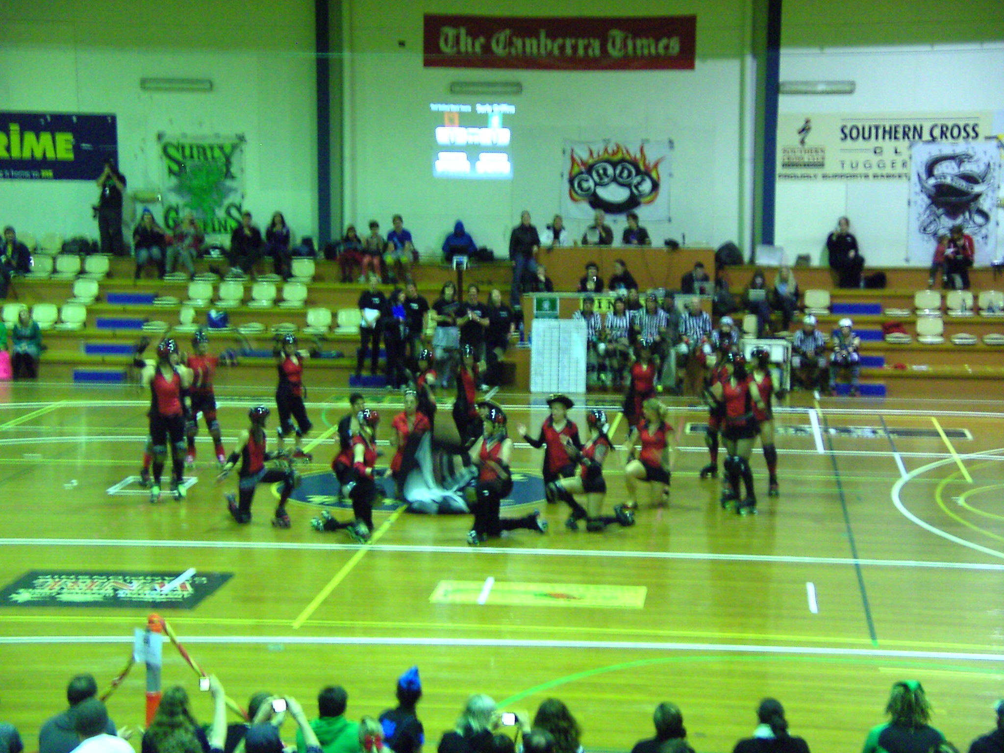 Canberra Roller Derby League team "Red Bellied Black Hearts" (allusion to Red bellied black snake)